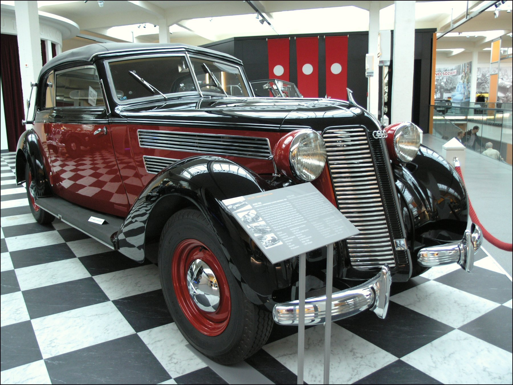 A 1939 Audi 920 in the August Horch Museum, Zwickau.